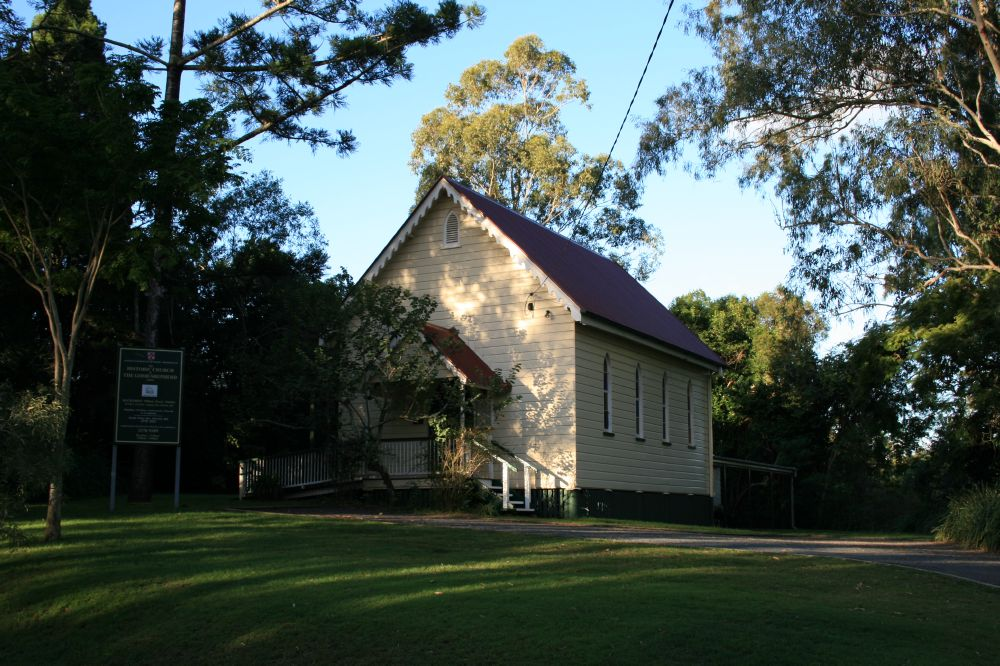 Anglican Church of the Good Shepherd